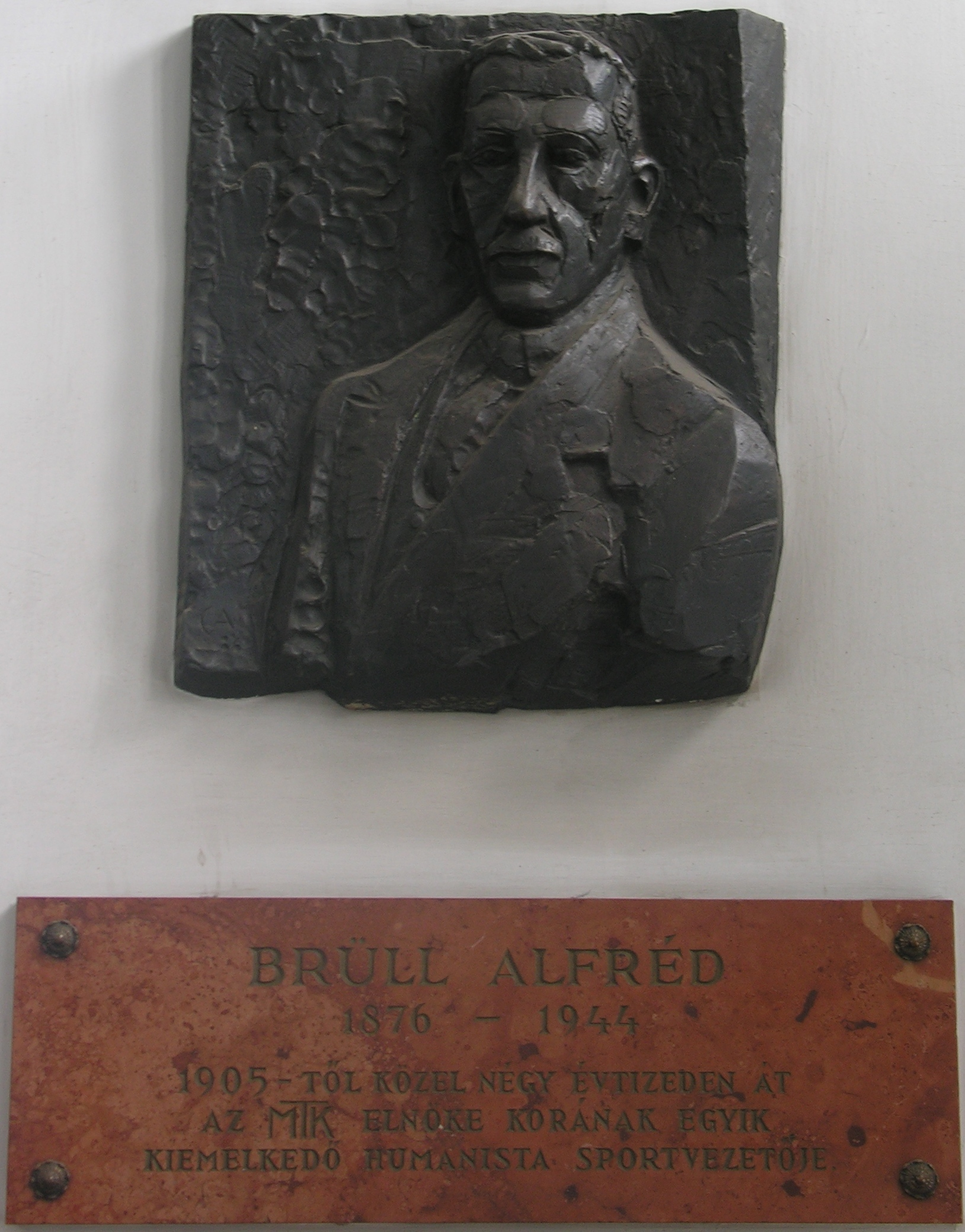 Commemorative plaque of Alfréd Brüll in Budapest District VIII, Salgótarjáni Street 12-14. (Hidegkúti Nándor Stadium)